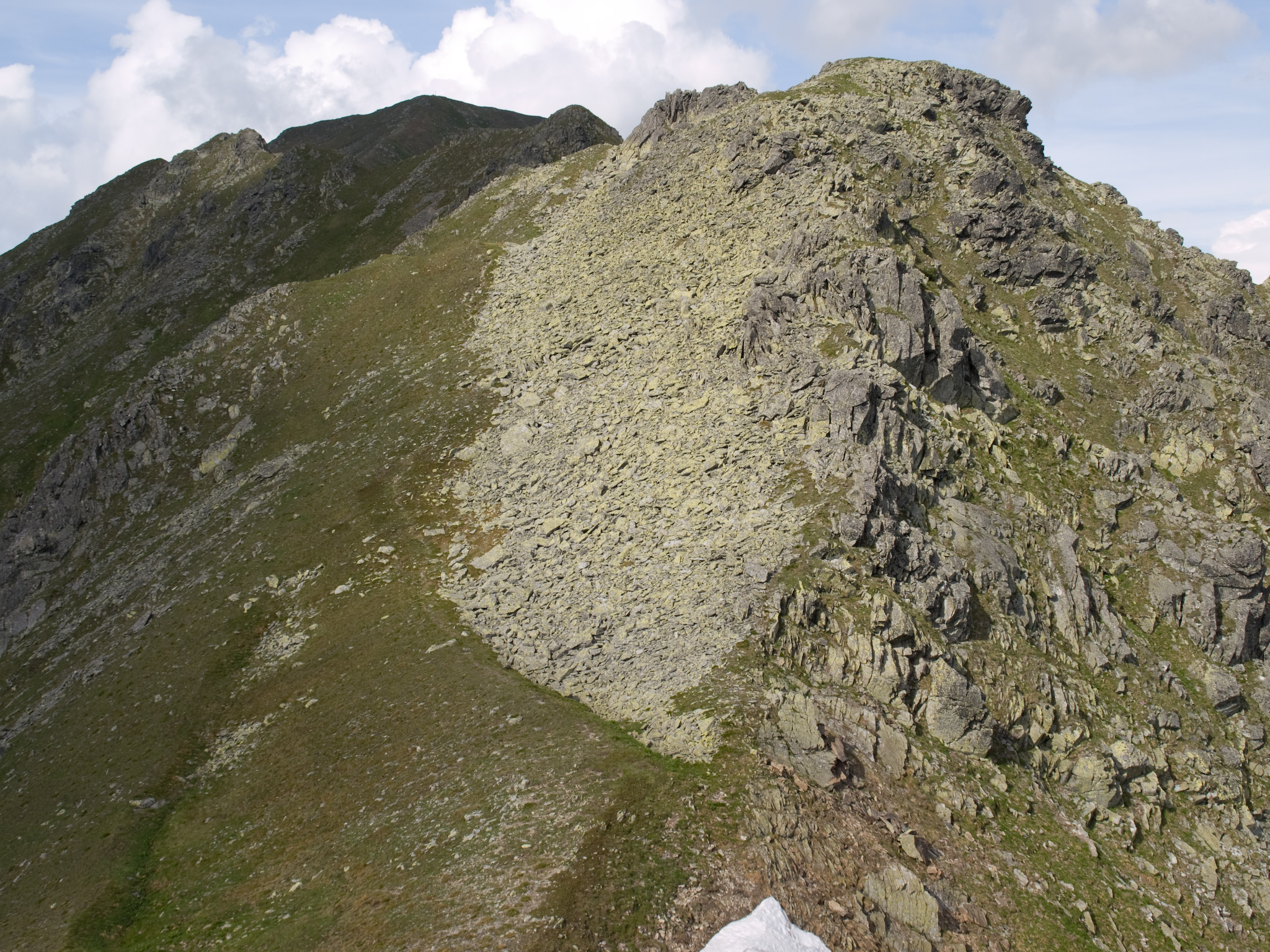 Grúň as seen from slopes of Nižná Bystrá, Bystrá in the background